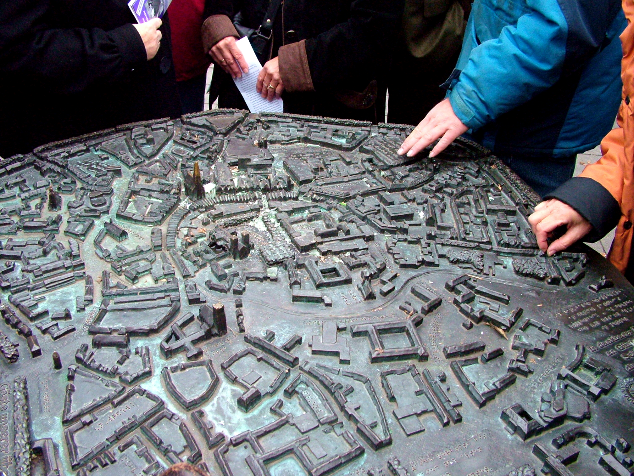 Map for the blind, city of Münster (Germany)